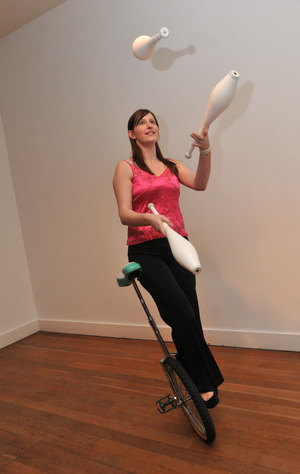 Kaleigh Grainger performing her signature trick: Juggling in Crank Idle